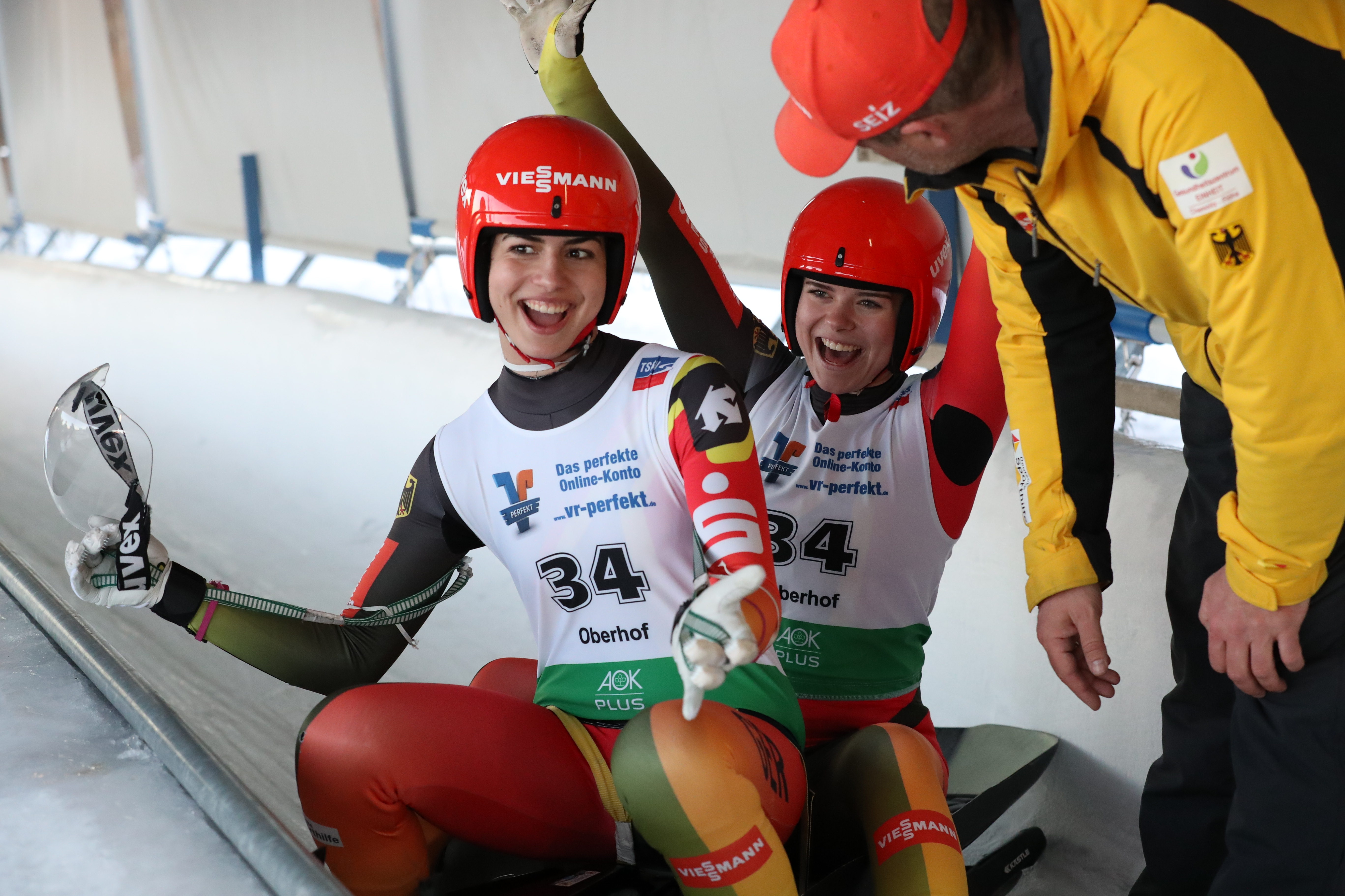 Youth A Doubles Women race at the 2018/19 Juniors and Youth A Luge World Cup in Oberhof